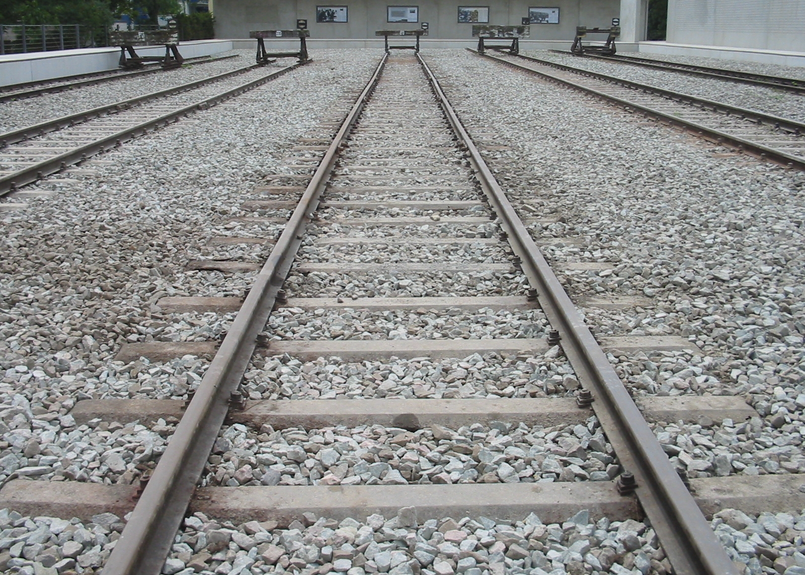 Memorial "Mark of Remembrance" in Stuttgart